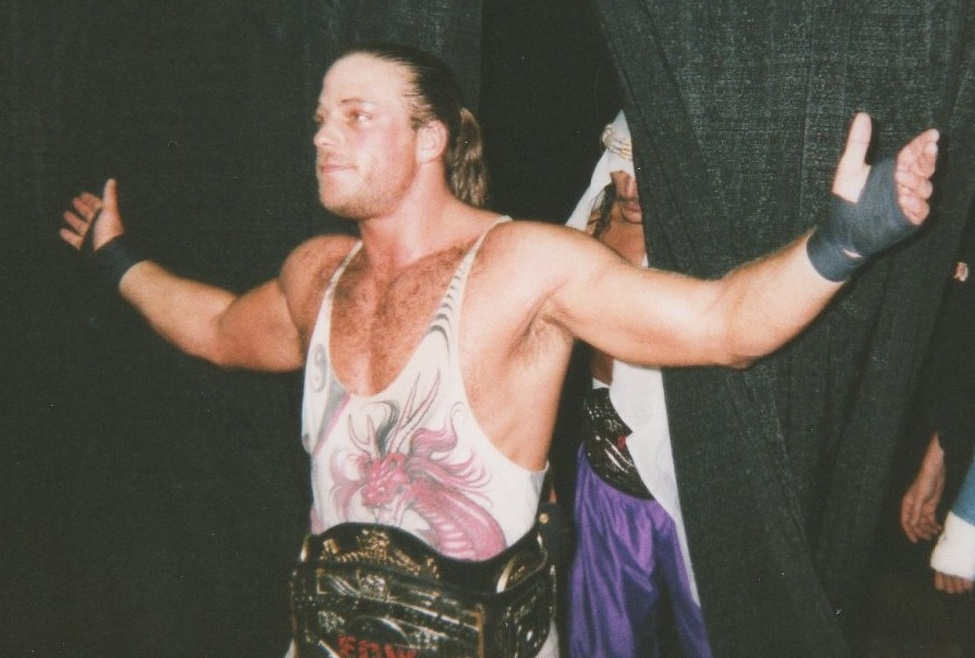 A photograph of Rob Van Dam (with Sabu visible in the background) taken at this show , October 4, 1998.